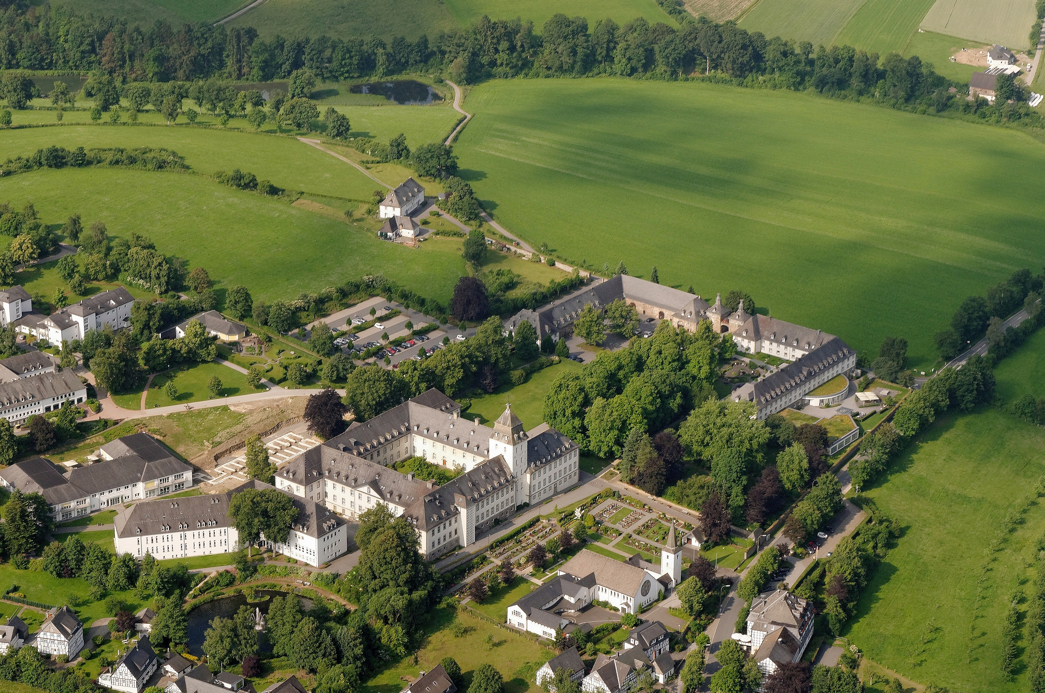 Fotoflug Sauerland-Ost, Kloster Grafschaft in Schmallenberg-Grafschaft The making of this document was supported by the Community-Budget of Wikimedia Germany.